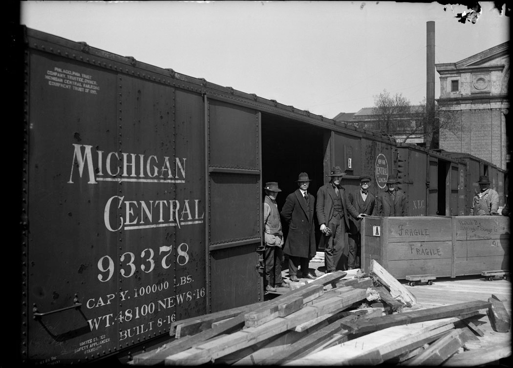 Men, loading platform, box marked Fragile. Michigan Central Railroad car #93378. Either west or east side of building, smoke stack visible at left. Museum move series. Field Columbian Museum move to new FM building. 1920. Original size and material: 5x7 inch glass negative Digital Identifier: CSGN40533 Part of the Illinois Urban Landscapes Project